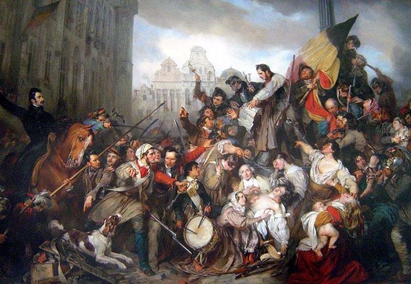 Men and women form a mound around a post in the streets of a city on the right of this painting. A tattered tricolour flag (of black, yellow, and red) is at the top, and beside this flag, a man stands with a paper in his hand. A man on his horse (on the left of the painting) is among the crowd at the base of the mound, and a dog campers just in front of his steed. The crowd bears swords, pikes, and guns affixed with bayonets. One of the women at the base of the mound cradles a baby, while two women and an old man grieve over a dead youth in their arms. The blue sky is overcast with grey smoke.